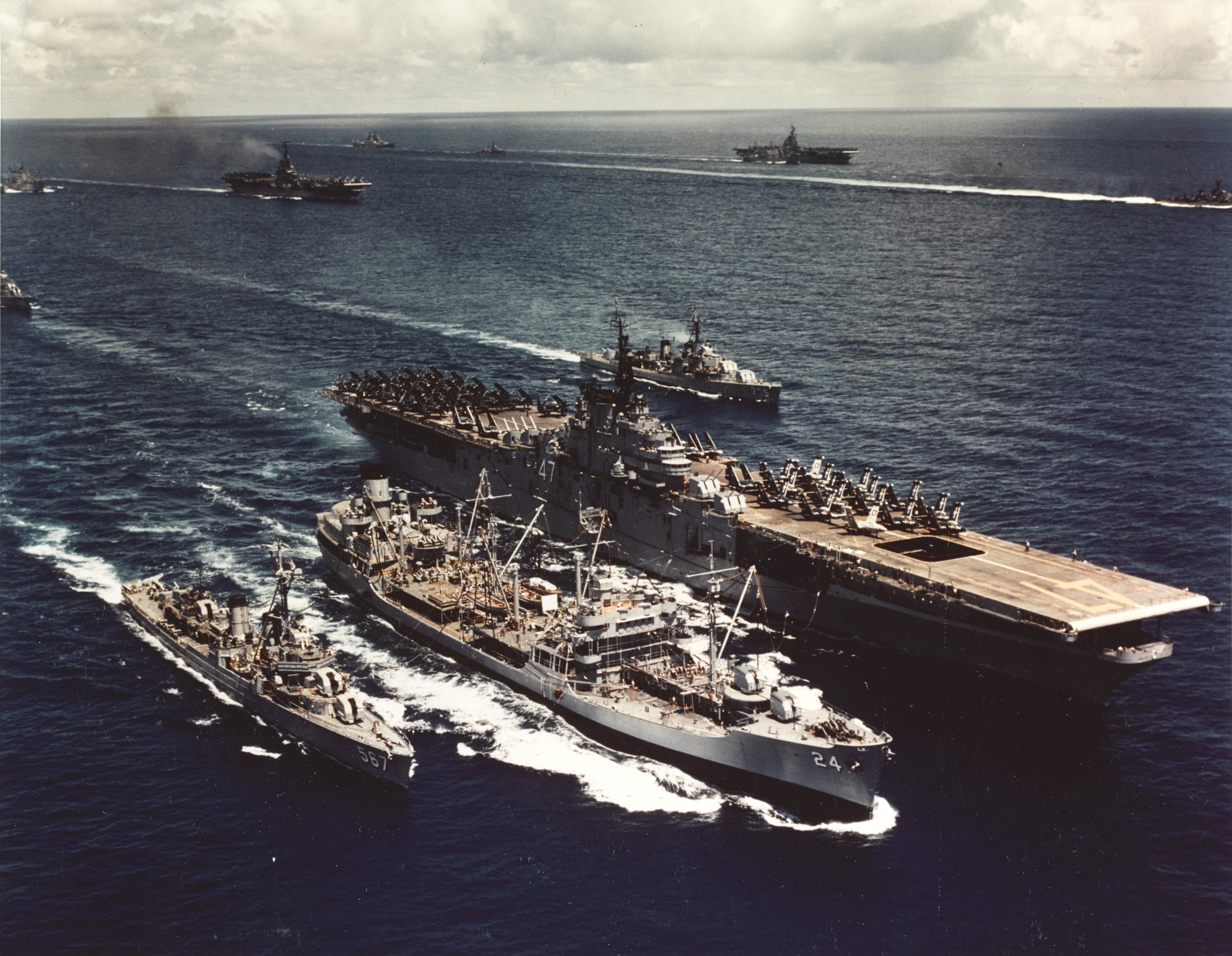 The U.S. Navy fleet oiler USS Platte (AO-24) refuleing the aircraft carrier USS Philippine Sea (CVA-47) and the destroyer USS Watts (DD-567), while operating with the U.S. 7th Fleet in the Western Pacific, 19 July 1955. Other ships present include the aircraft carriers USS Hornet (CVA-12) and USS Oriskany (CVA-34), a cruiser and several destroyers and replenishment ships. USS John A. Bole (DD-755) is visible directly behind Philippine Sea. Philippine Sea, with assigned Air Task Group 2 (ATG-2), was deployed to the Western Pacific from 1 April to 23 November 1955.